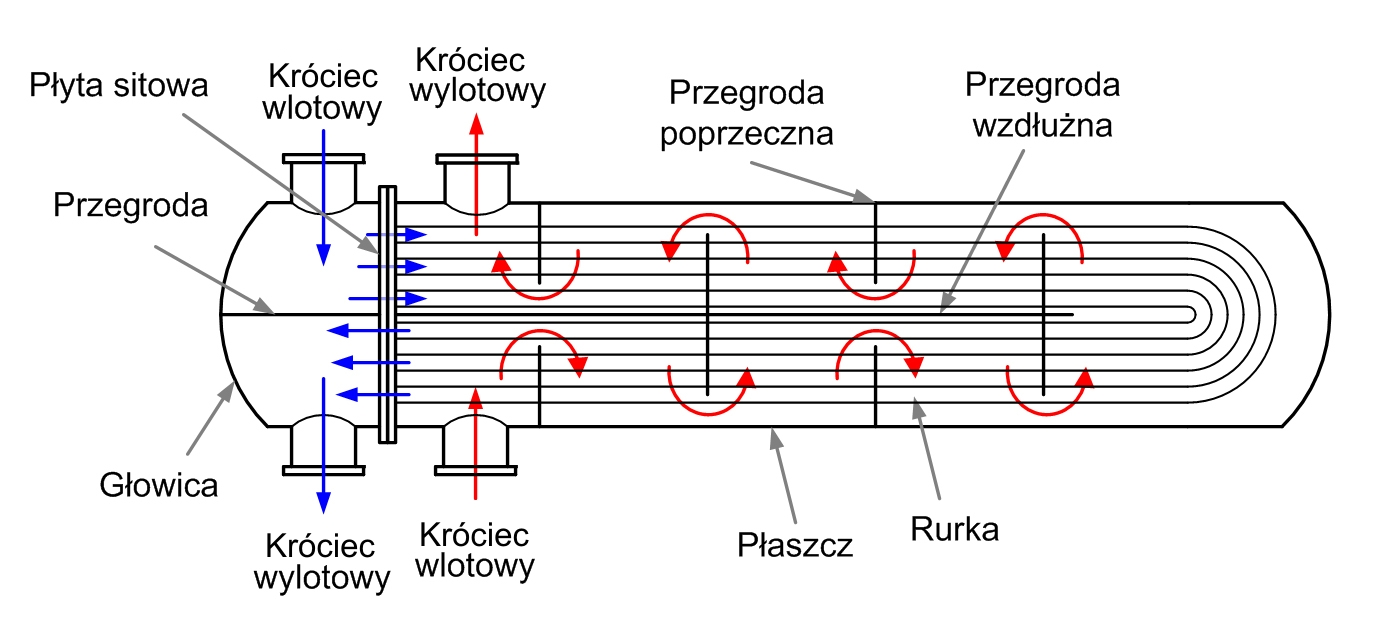 BFU Type Shell and Tube Heat Exchanger (with U-Tubes)